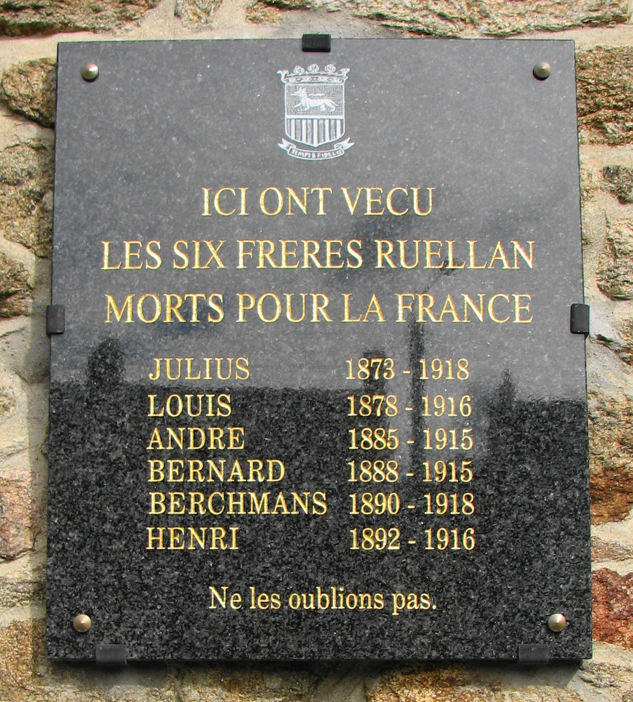 Plaque on the former family house (now a library) of Ruellan brothers in neighbourhood of Paramé in Saint Malo (France). 6 out 10 brothers enroled during World War I were killed in action.